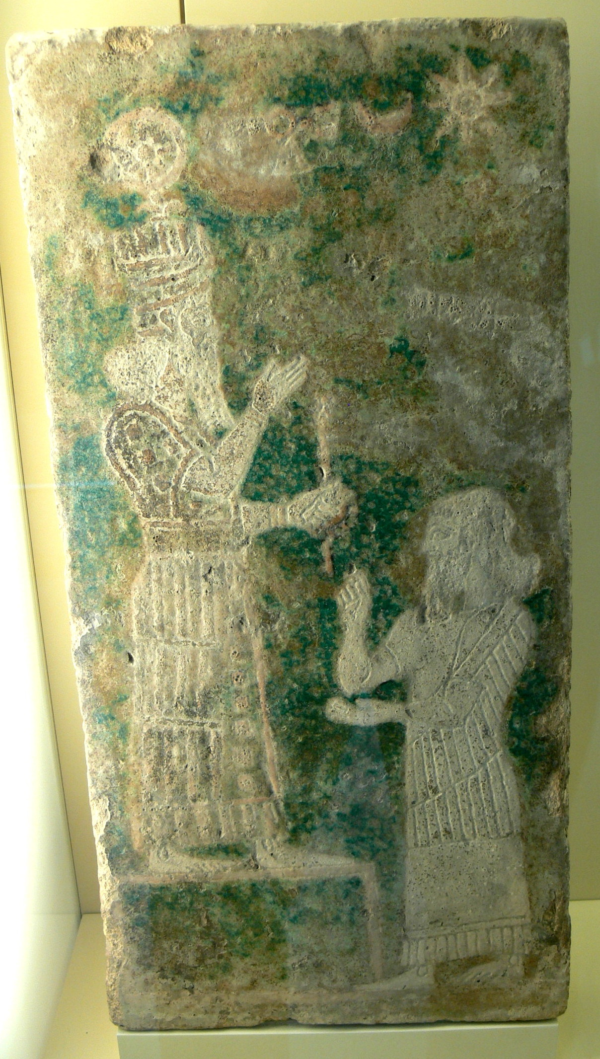 Museum of Ancient Near East ( Berlin ). Tile showing a praying man in front of god Shamash ( 8th century BC ).